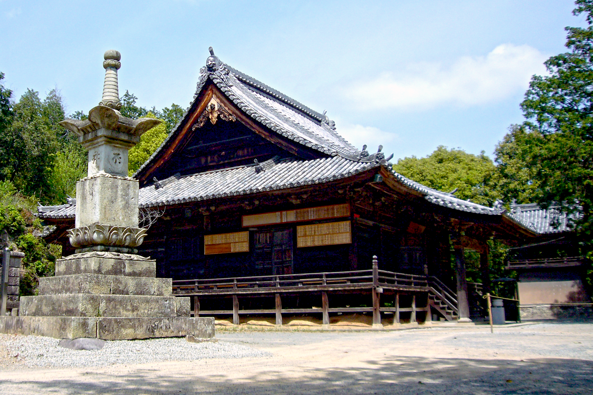 Jinshaku-ji in Fukusaki, Hyogo prefecture, Japan